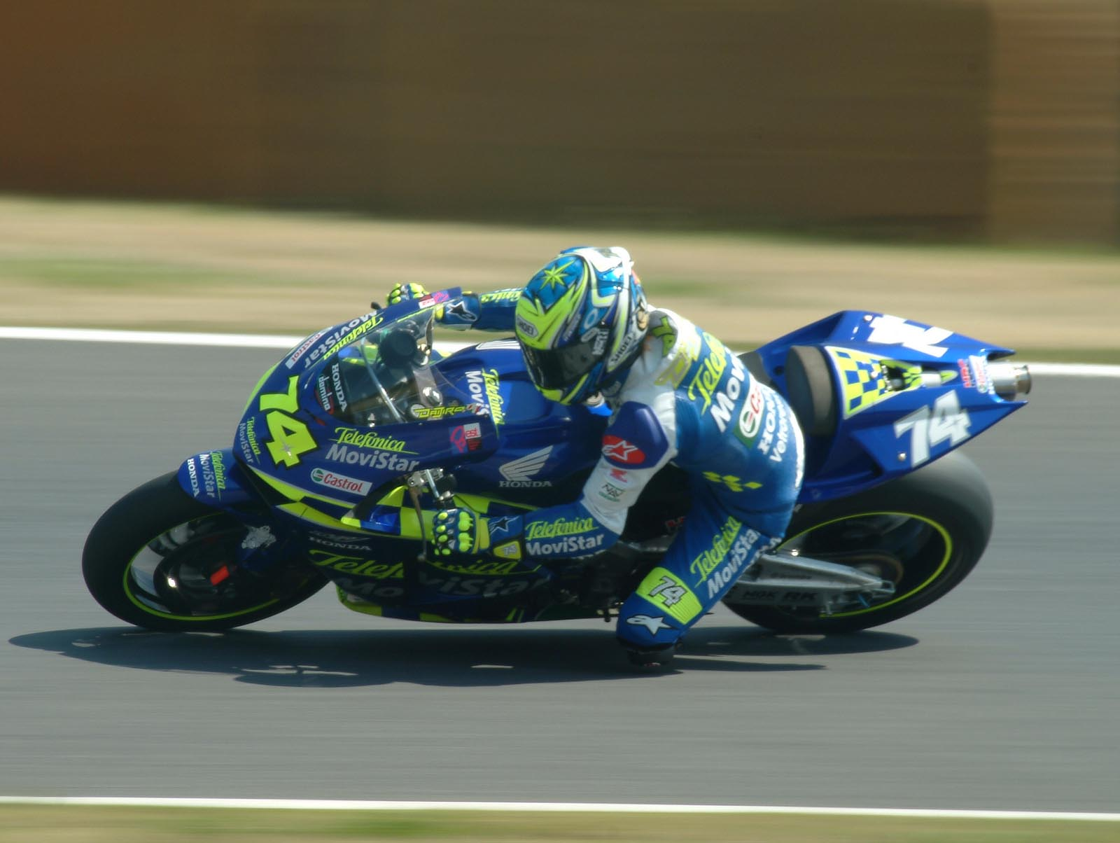 Dajiro Kato, in Japanese Grand Prix 2003